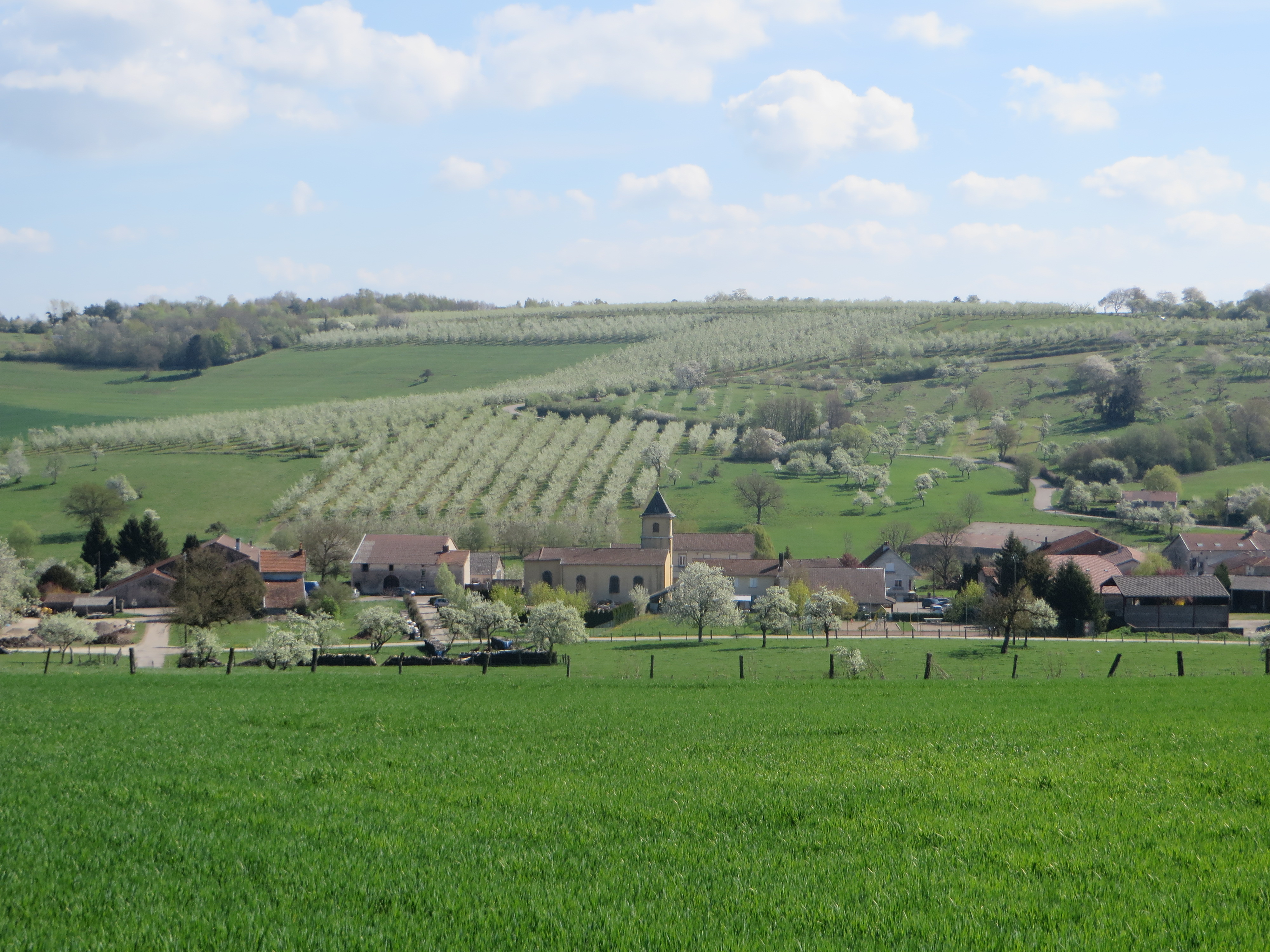 General View of the village Evaux et Menil